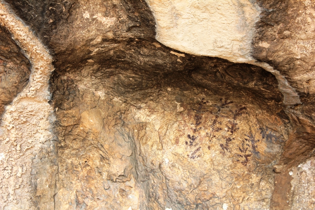 Mallata B: Pinturas ramiformes